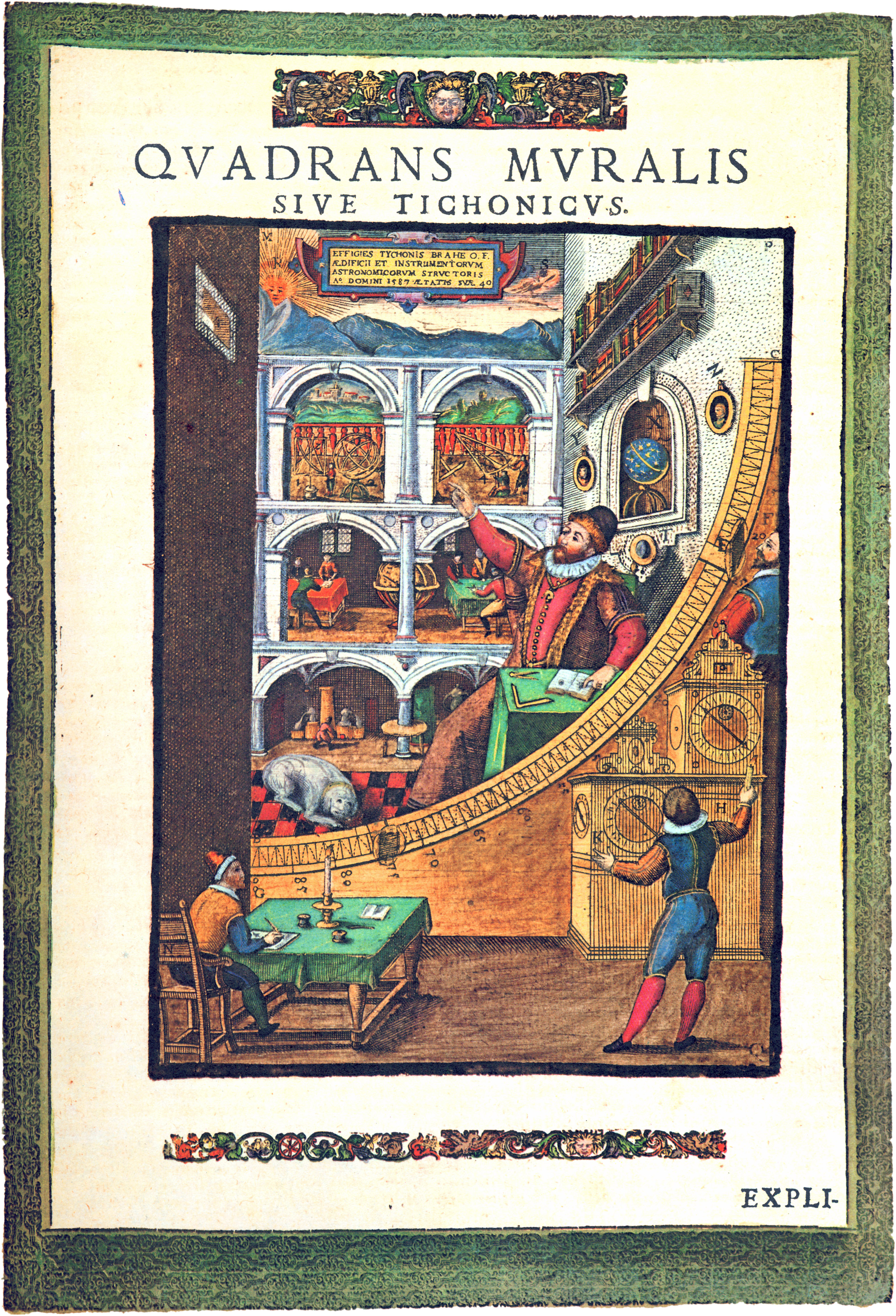 Tycho's Wall Quadrant. An engraving of Tycho Brahe in his Uraniborg observatory on the island of Hven, probably from the 1598 printing of his Astronomiae instauratae mechanica, hand coloured. The engraving shows the painting above the quadrant that Brahe had commissioned to be made in 1587 by the painters Hans Knieper, Hans van Steenwinckel the Elder and Tobias Gemperle who were responsible, respectively, for the painting of the landscape at the top, the three arches representing the three areas of Uraniborg and the portrait of Brahe.